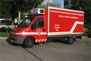 AHBVPA-VAPA 01